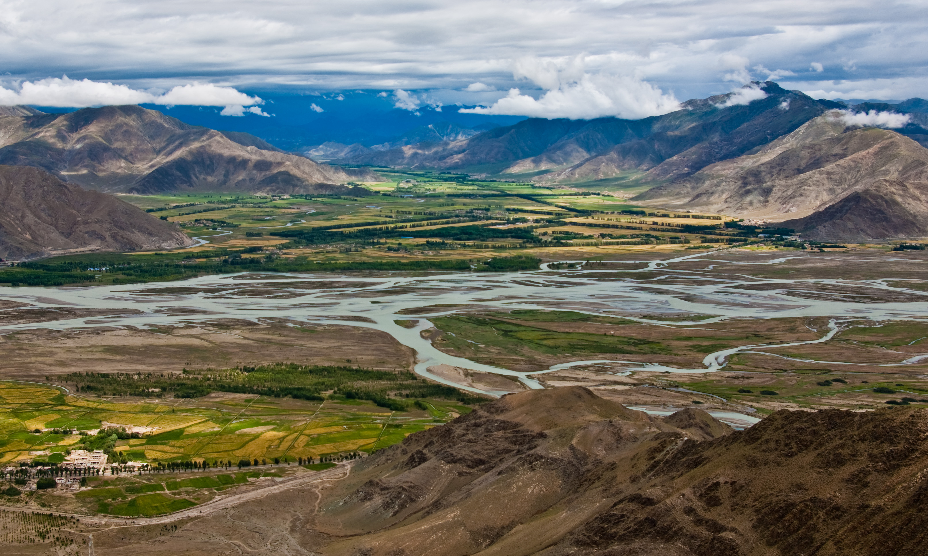 Brahmaputra from Ganden monastery